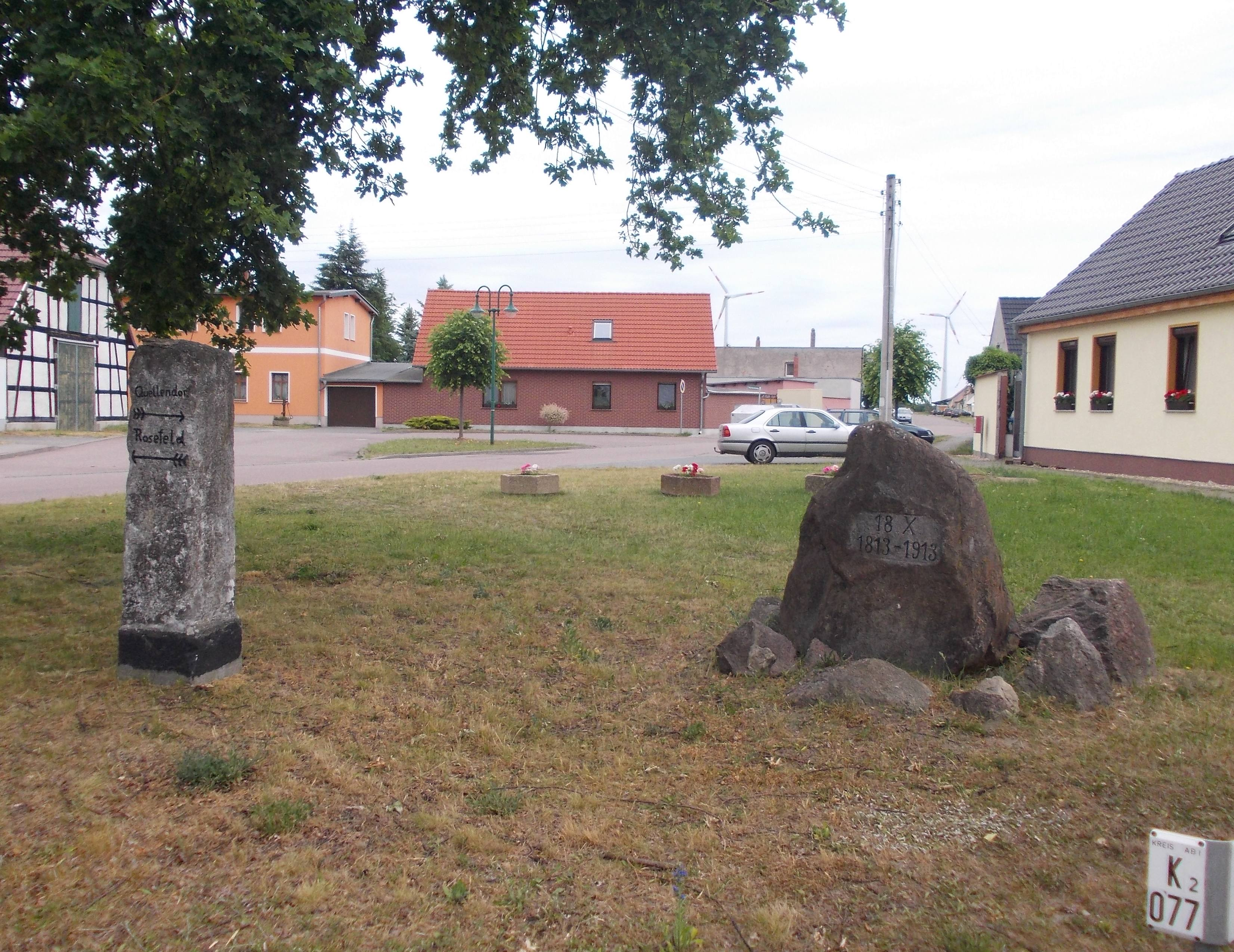 Old signpost and 1813 memorial in Libbesdorf (Osternienburger Land, Anhalt-Bitterfeld district, Saxony-Anhalt)